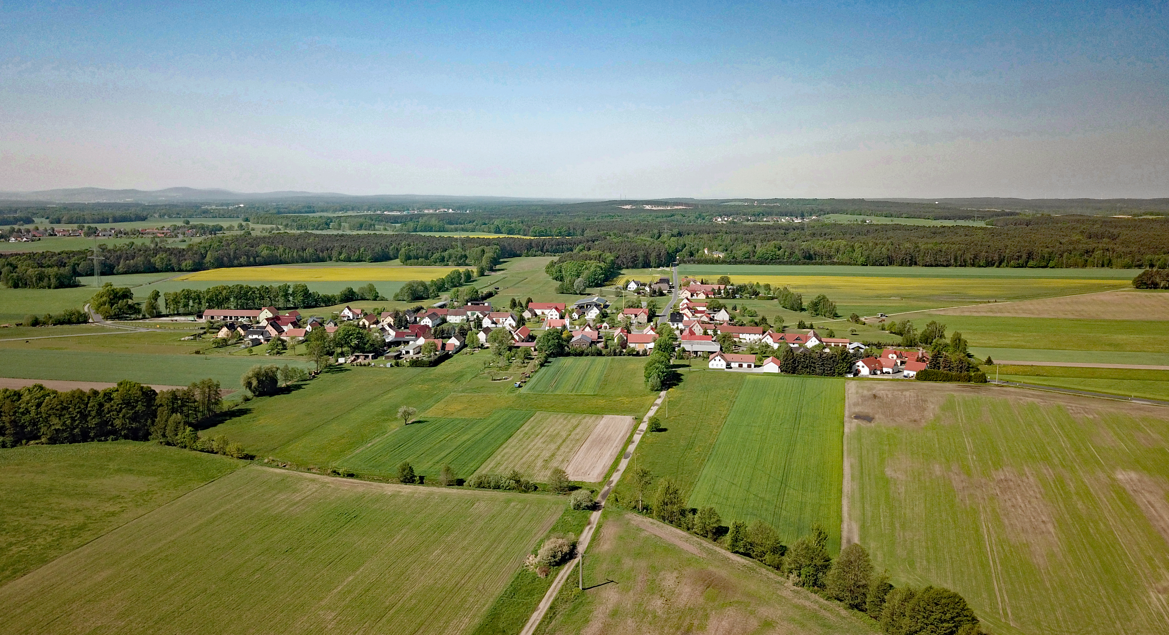 Saalau (Wittichenau, Saxony, Germany) Hornjoserbsce: Powětrowy wobraz Salowa